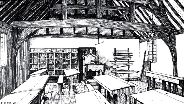 Line drawing of the Stratford grammar school drawn by Edmund Hort New.